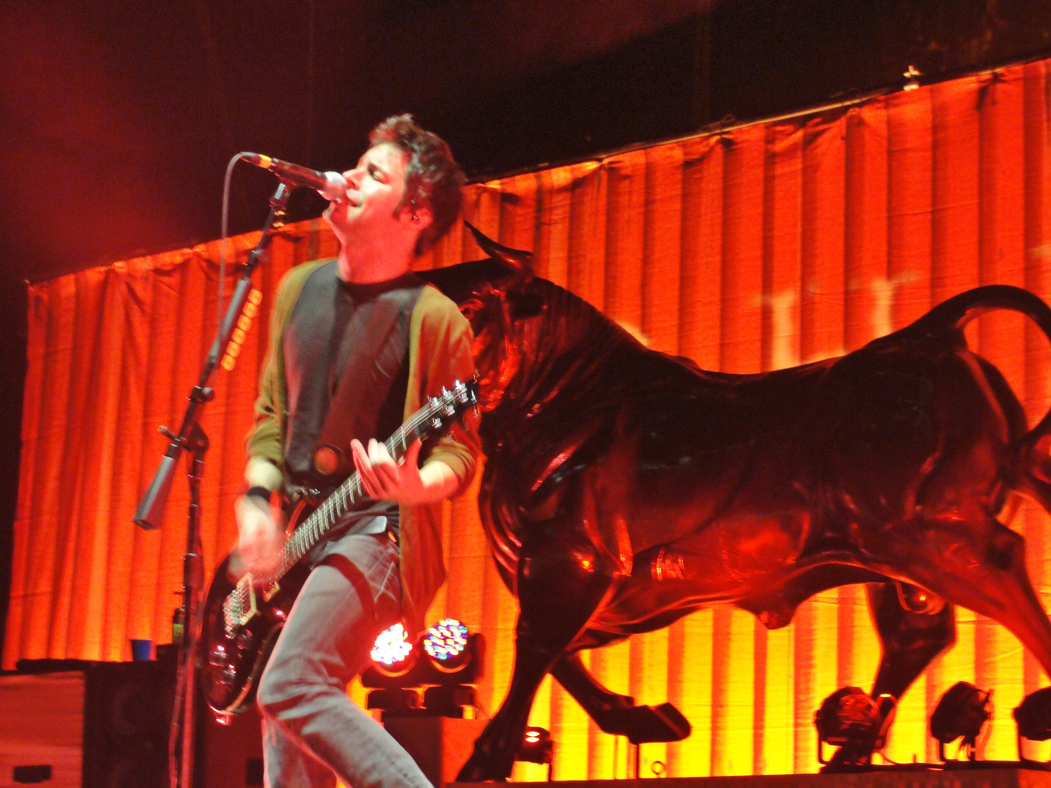 Pete Loeffler of Chevelle performing at the Laredo Energy Arena in Laredo, Texas August 14, 2012